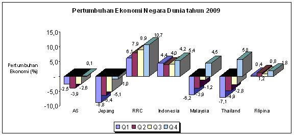 The graphic show the economic growth comparison between Indonesia and other countries in the world, namely United States, Japan, People's Republic of China, Malaysia, Thailand and Philippine.